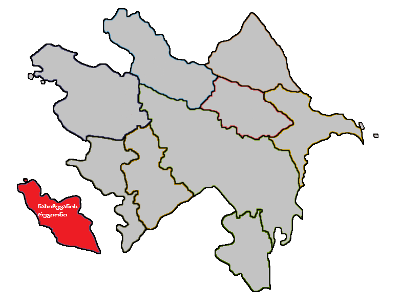 Nakhchivan economic region.